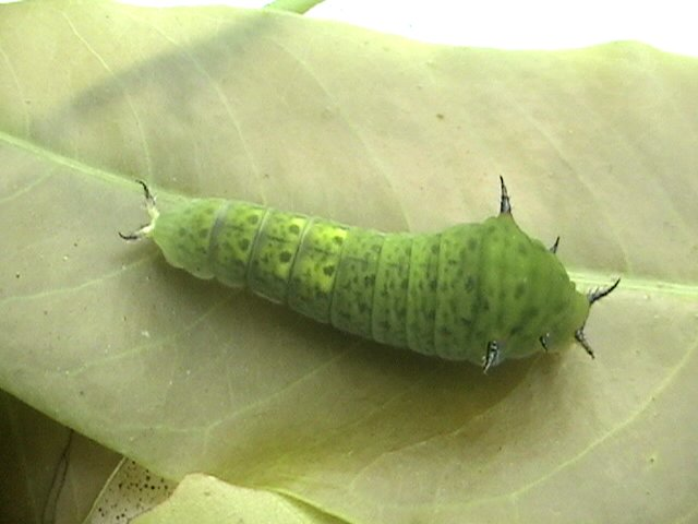 Tailed Jay (Graphium agamemnon) caterpillar in 4th instar